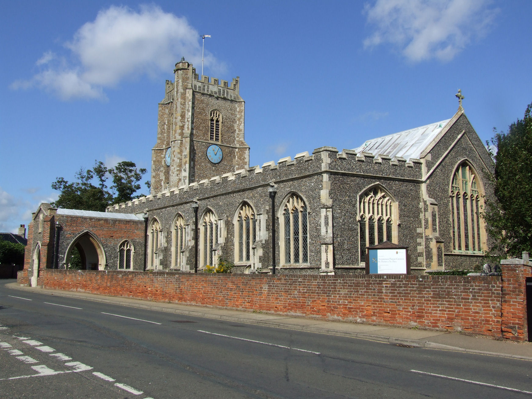 Buried in the churchyard are Benjamin Britten, Peter Piers and Imogen Holst, the only daughter of Gustav Holst.